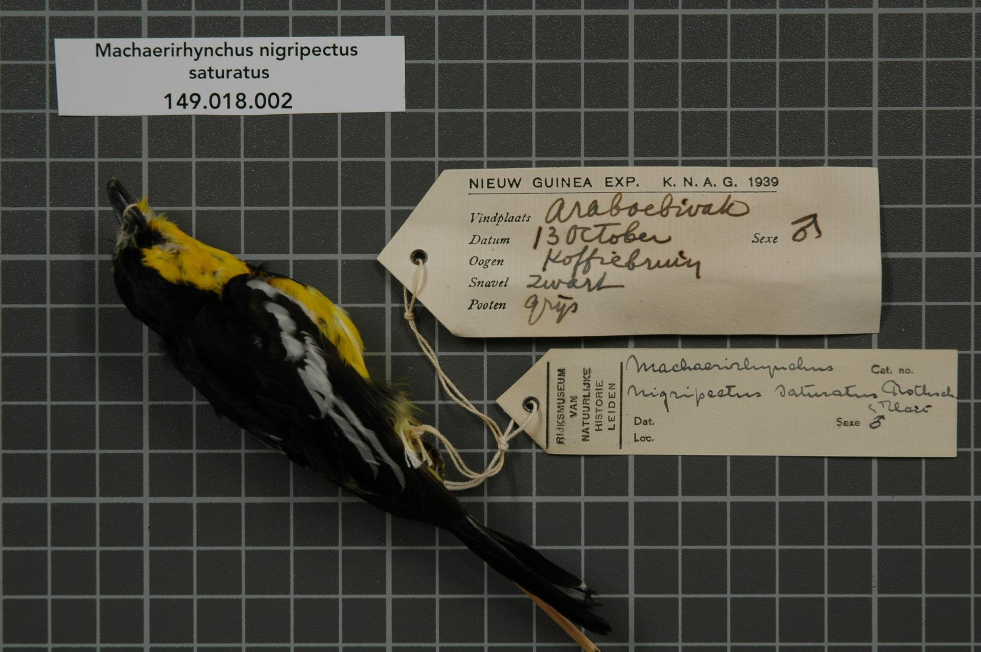 Machaerirhynchus nigripectus saturatus Rothschild and Hartert, 1913